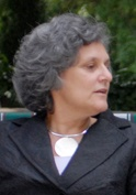 Kinga Göncz, former Minister of Foreign Affairs of Hungary.